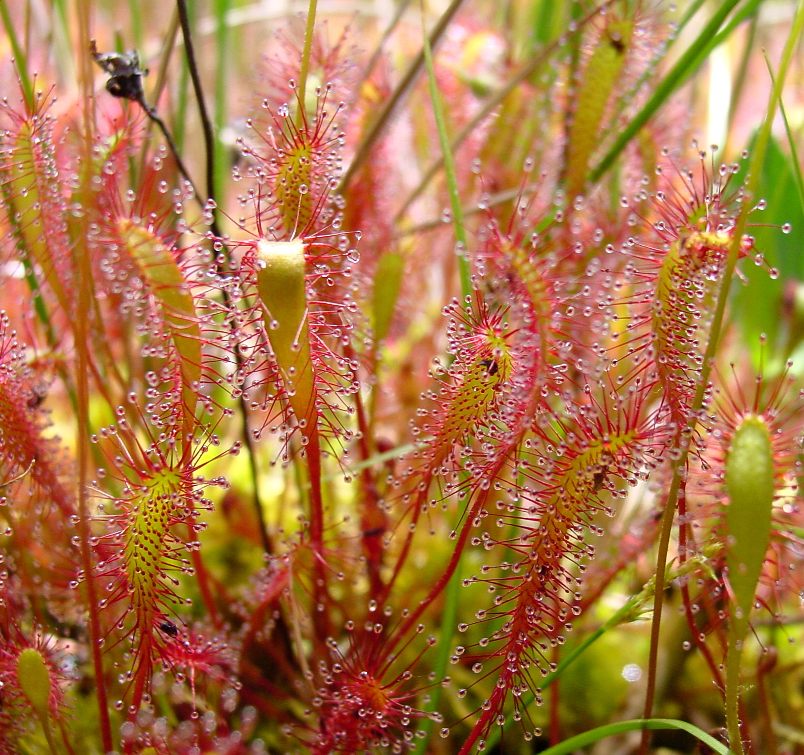 Description: Carnivorous leaves of Drosera anglica. Photo taken by: Noah Elhardt